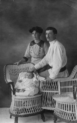 the child could be Gideon, born May 31, 1913. --Goesseln (talk) 16:59, 13 January 2015 (UTC)